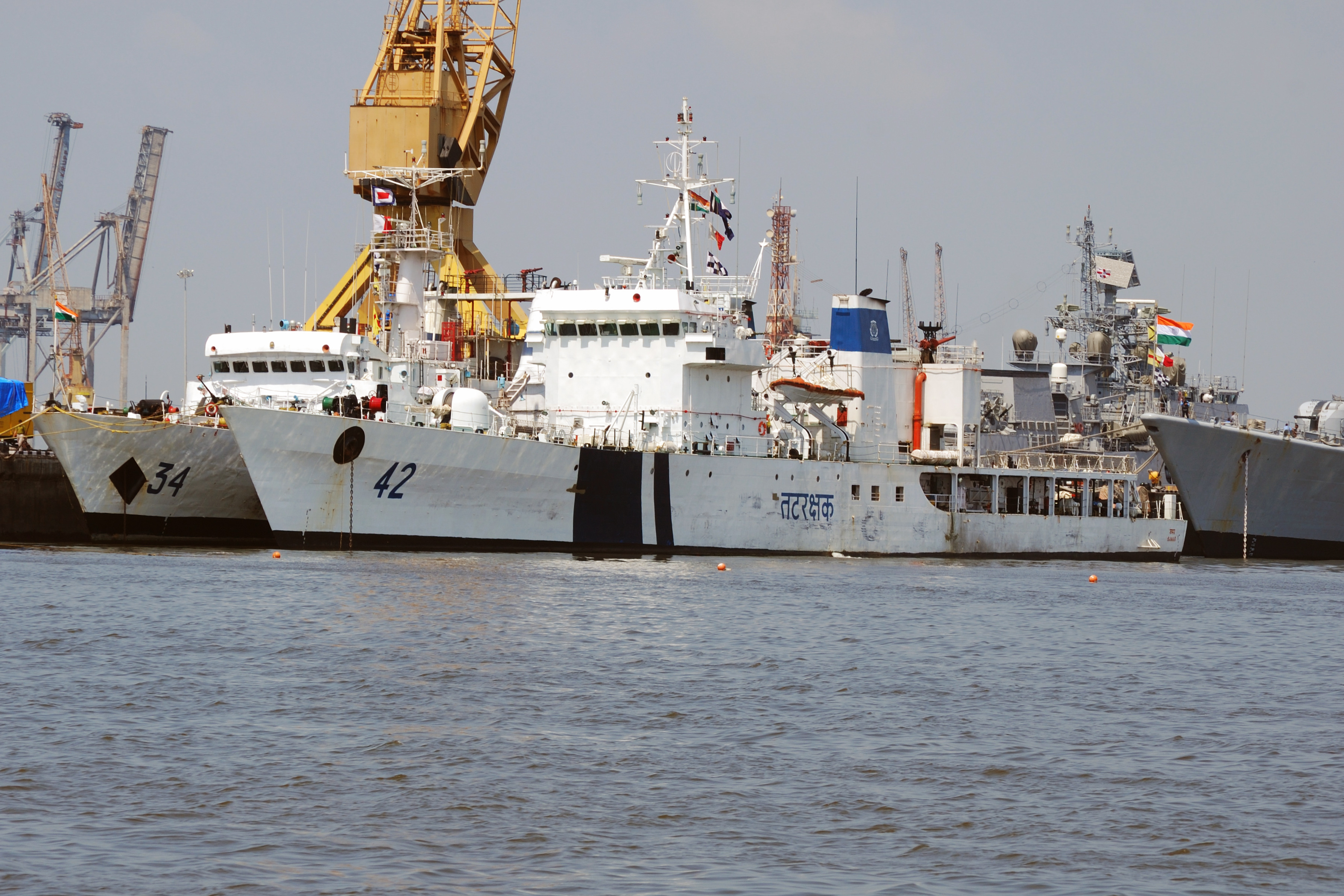 Indian coast guard ships: Vijaya (34) and Samar (42).